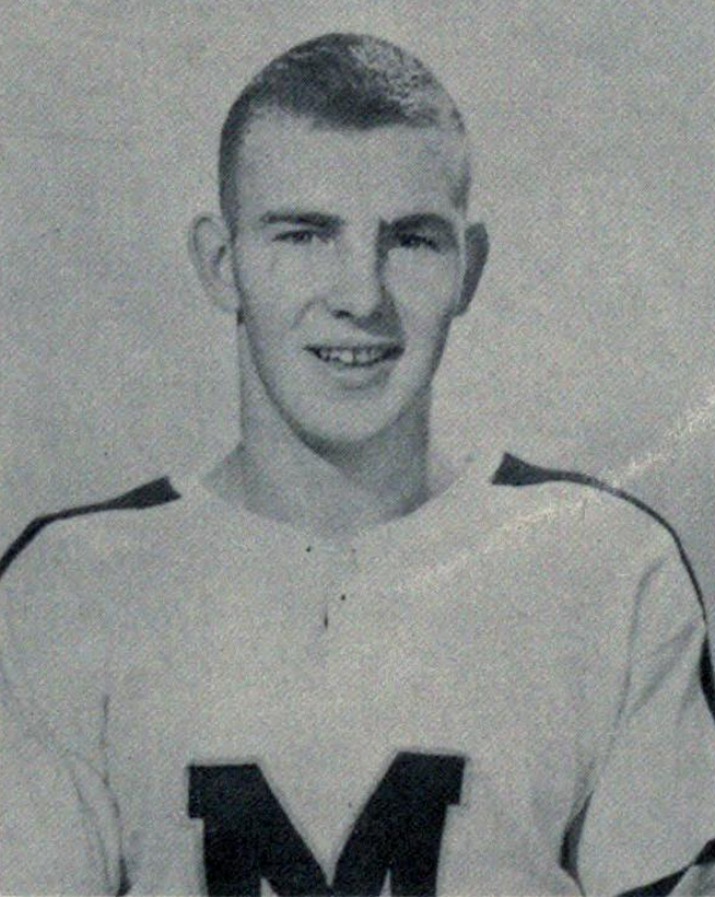 Andre Champagne, circa 1962